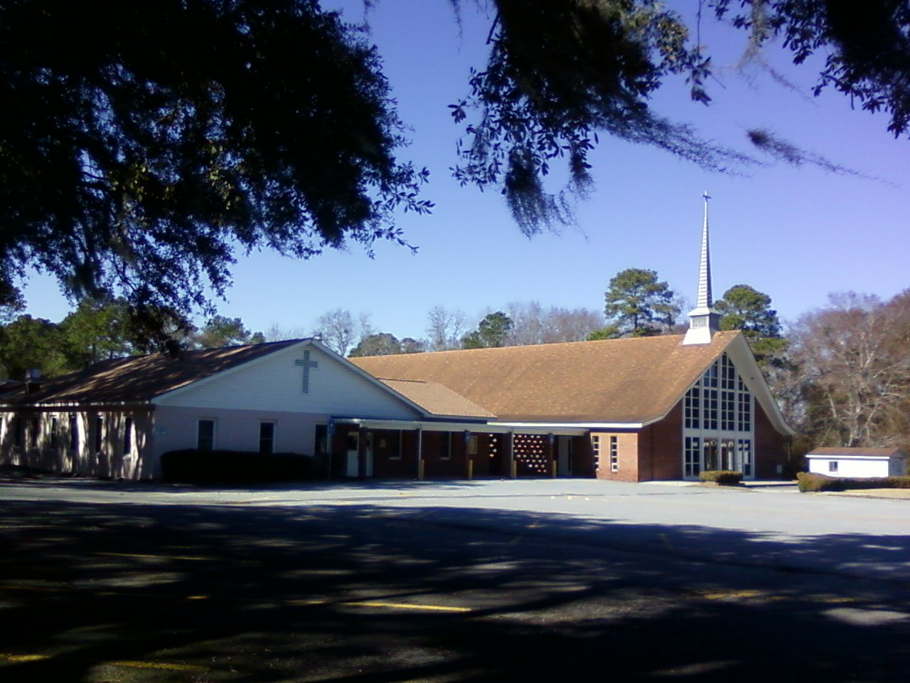 Woodlawn Baptist Church in Garden City, Georgia.